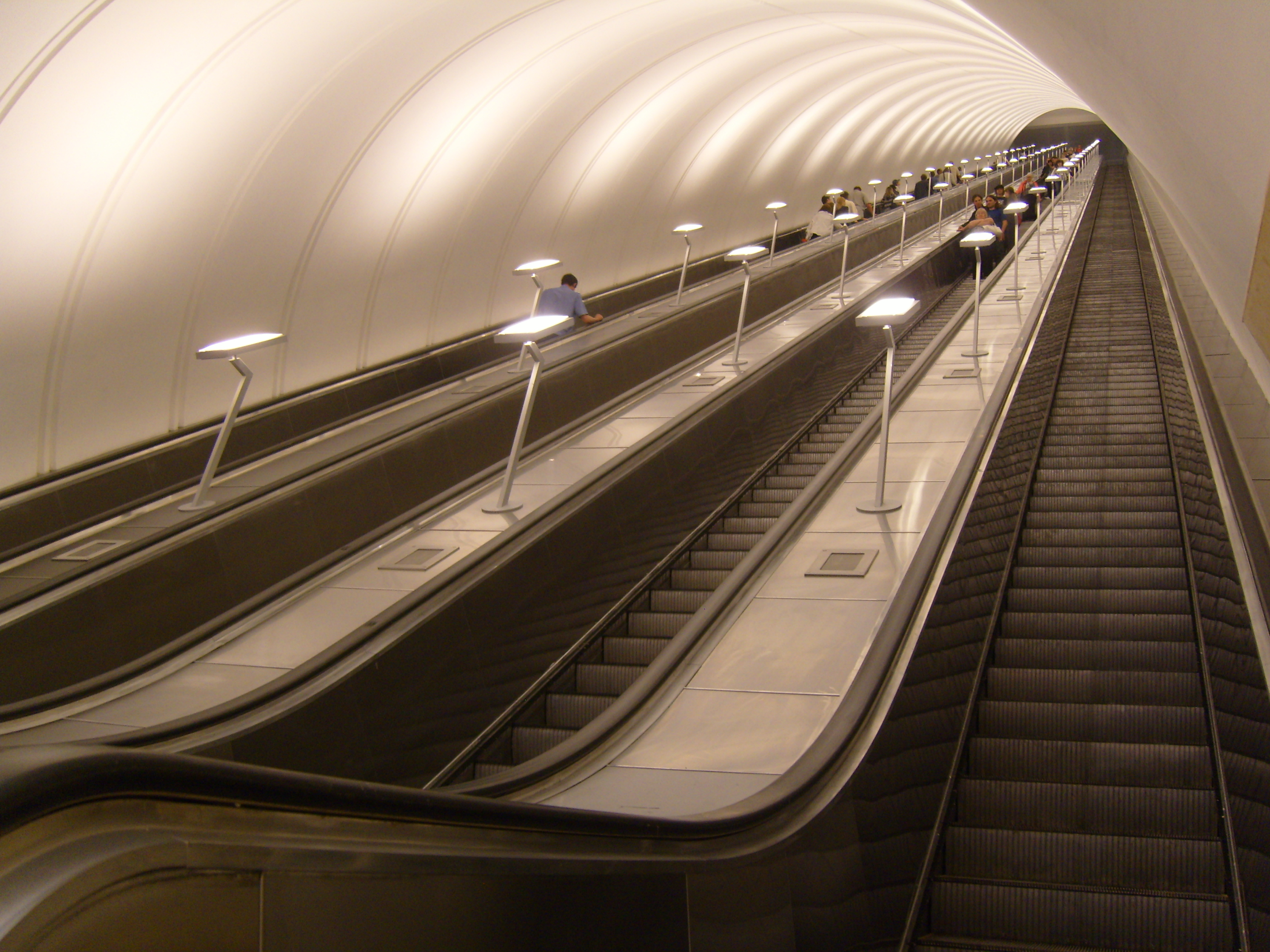 Escalator at the Moscow Metro station "Maryina Roshcha" at the day of the opening station